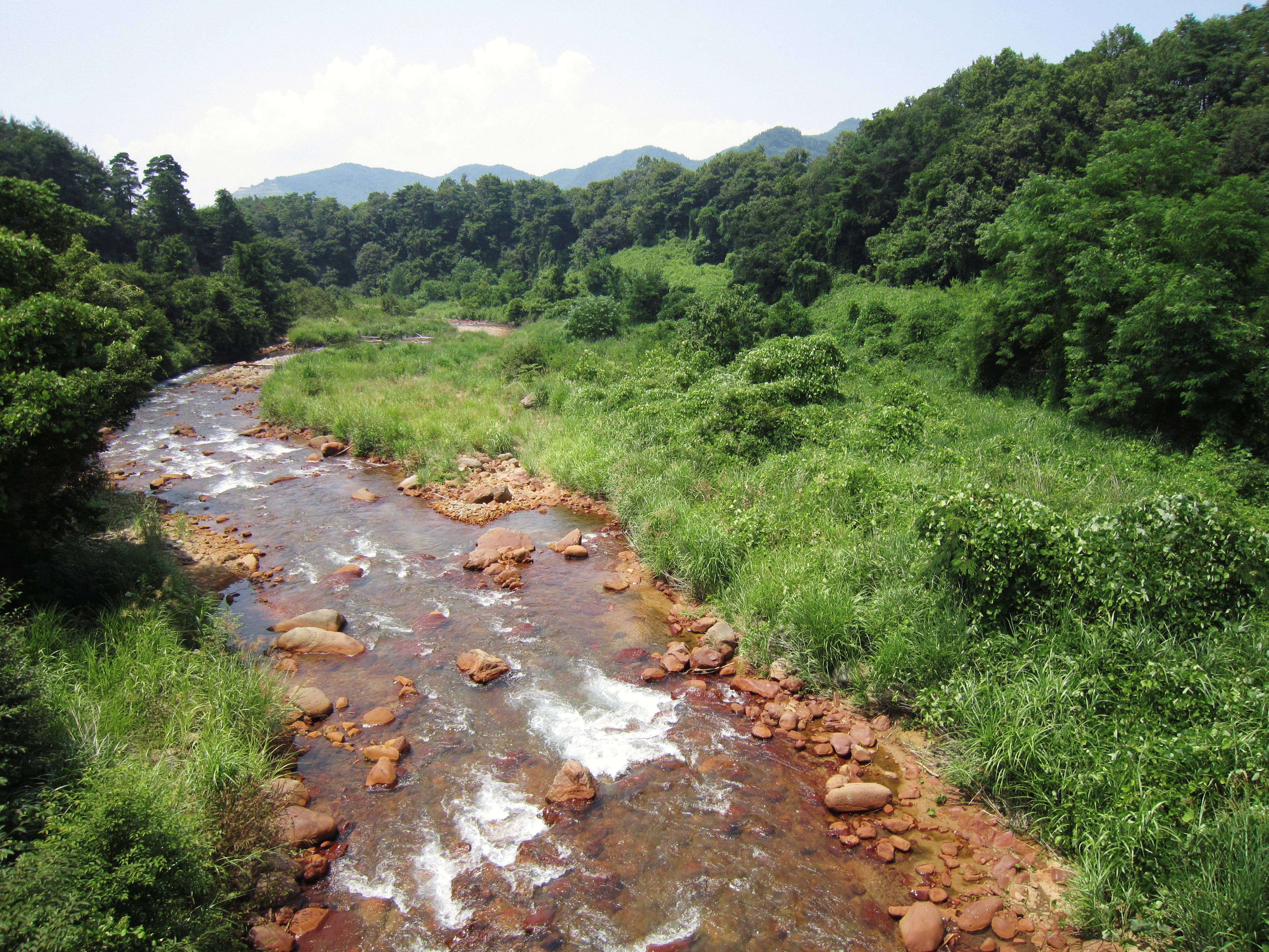 Matsu River (Kamitakai District, Nagano).